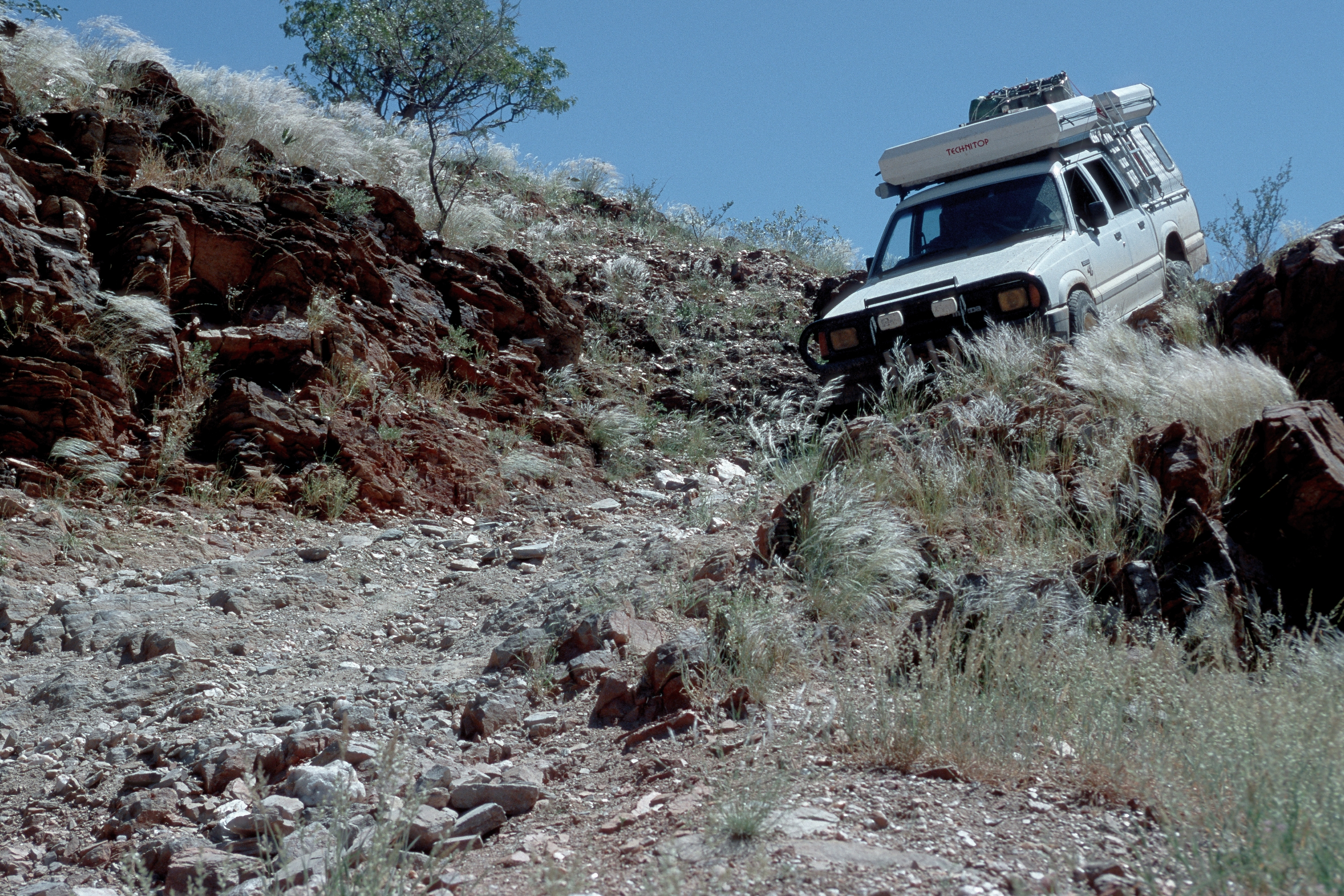 Van Zyl´s Pass, Kaokoveld, a challenge for offroad drivers